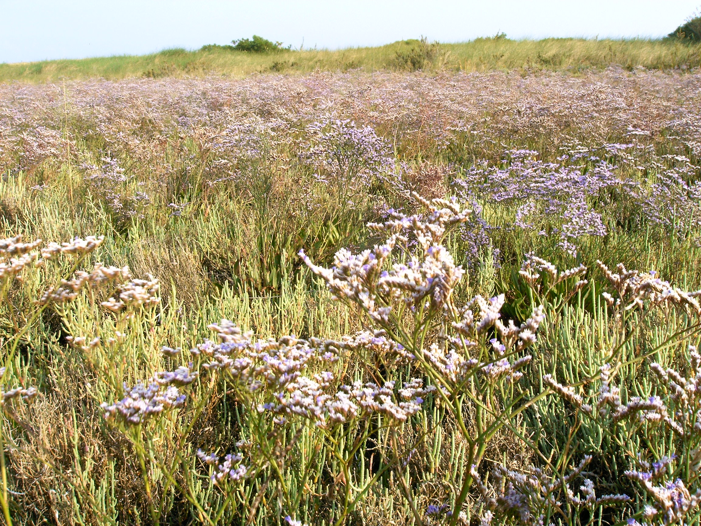 Flowers of the islands of the lagoon of Grado.